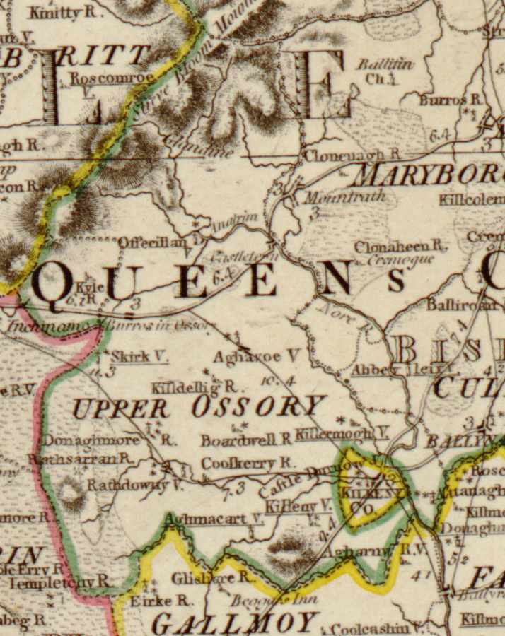 Detail of Upper Ossory from Daniel Augustus Beaufort's 1797 map of Ireland. Durrow was an exclave of County Kilkenny until 1842. Contributors: Daniel Augustus Beaufort (1739–1821) William Faden (1749–1836) Samuel John Neele (1758–1824)